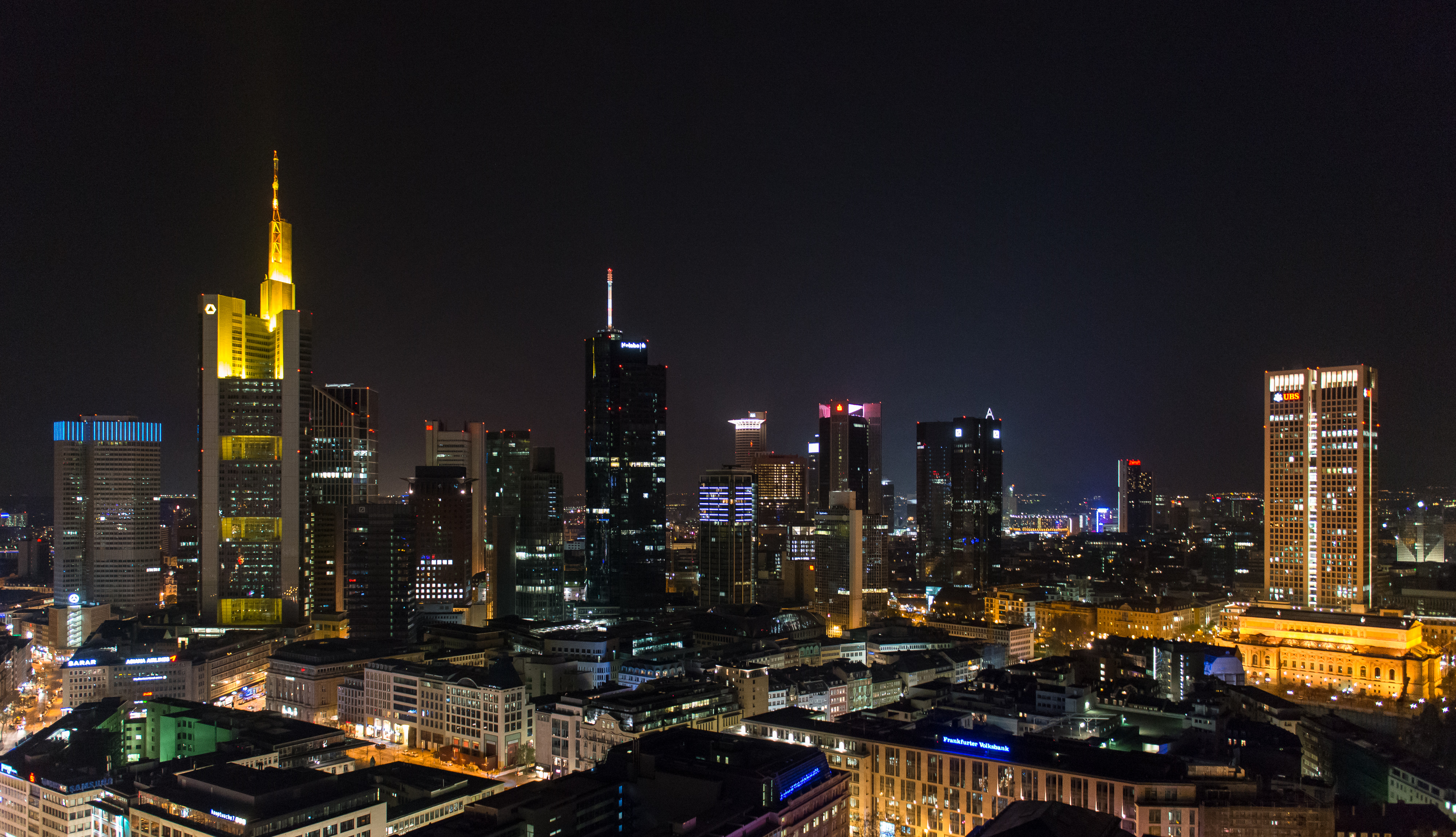 Frankfurt am Main, Skyline of the city towers at night, as seen from East (March 2014)